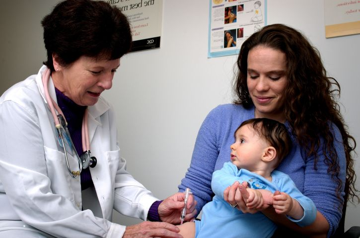 Immunization